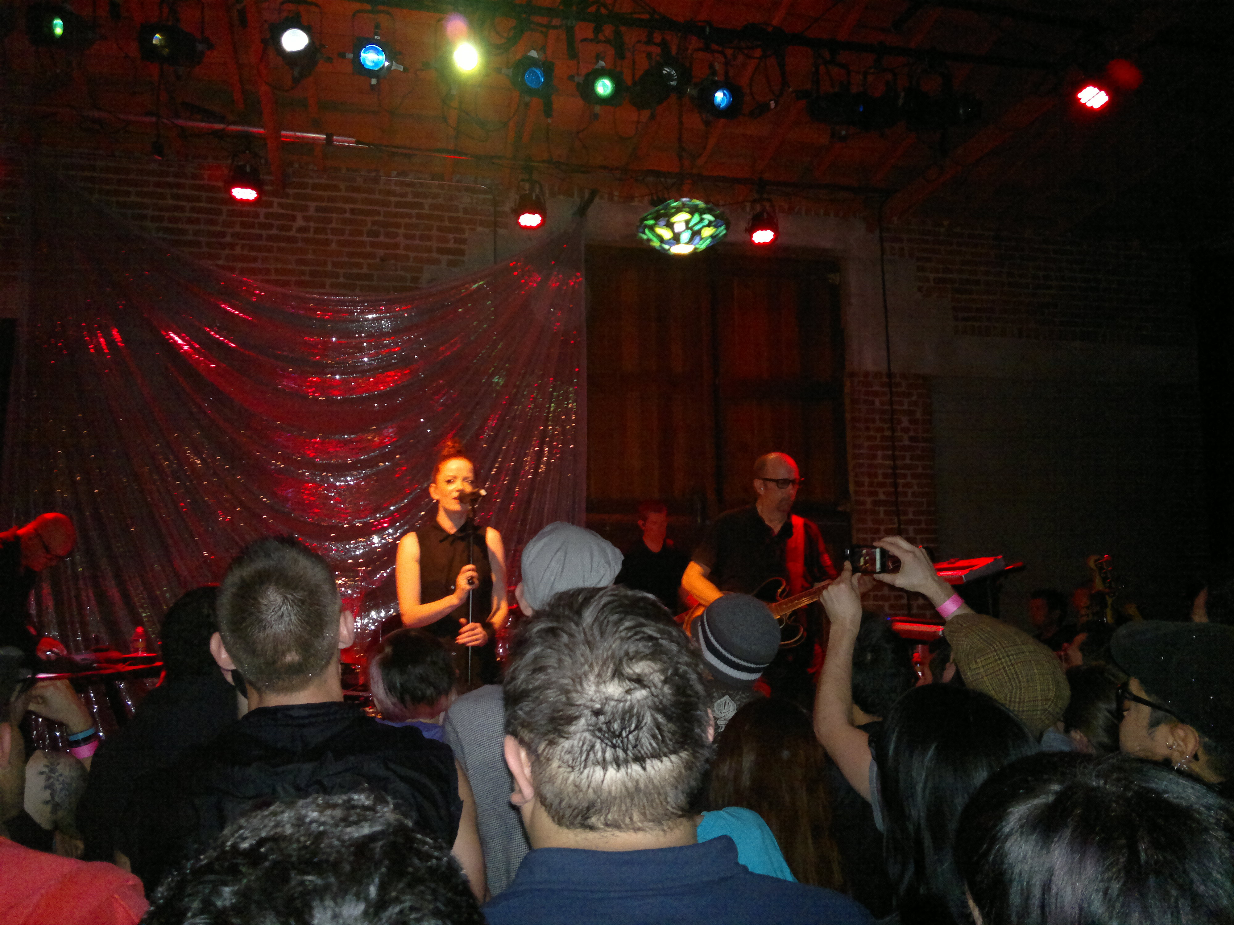 Garbage performing at the Bootleg Theater in Los Angeles.